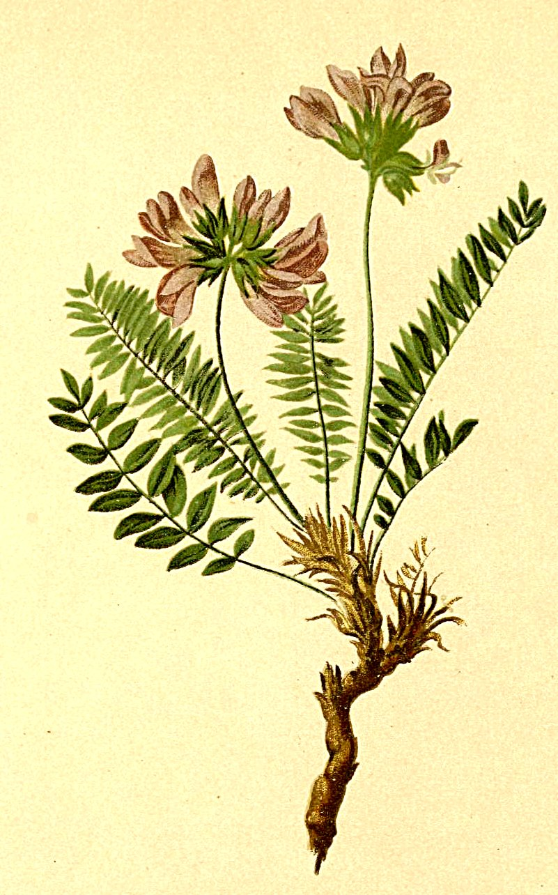 Oxytropis halleri